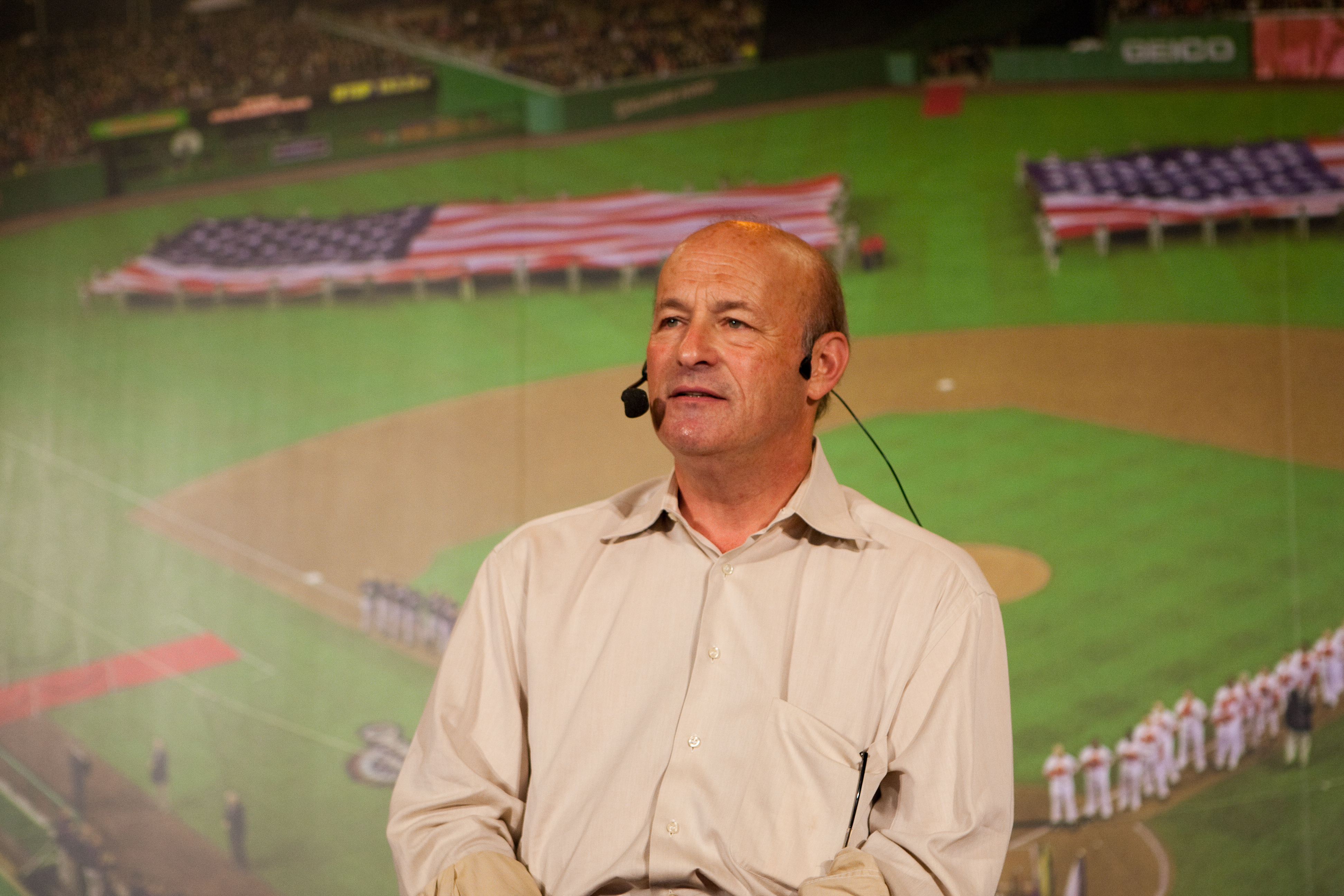 Stan Kasten